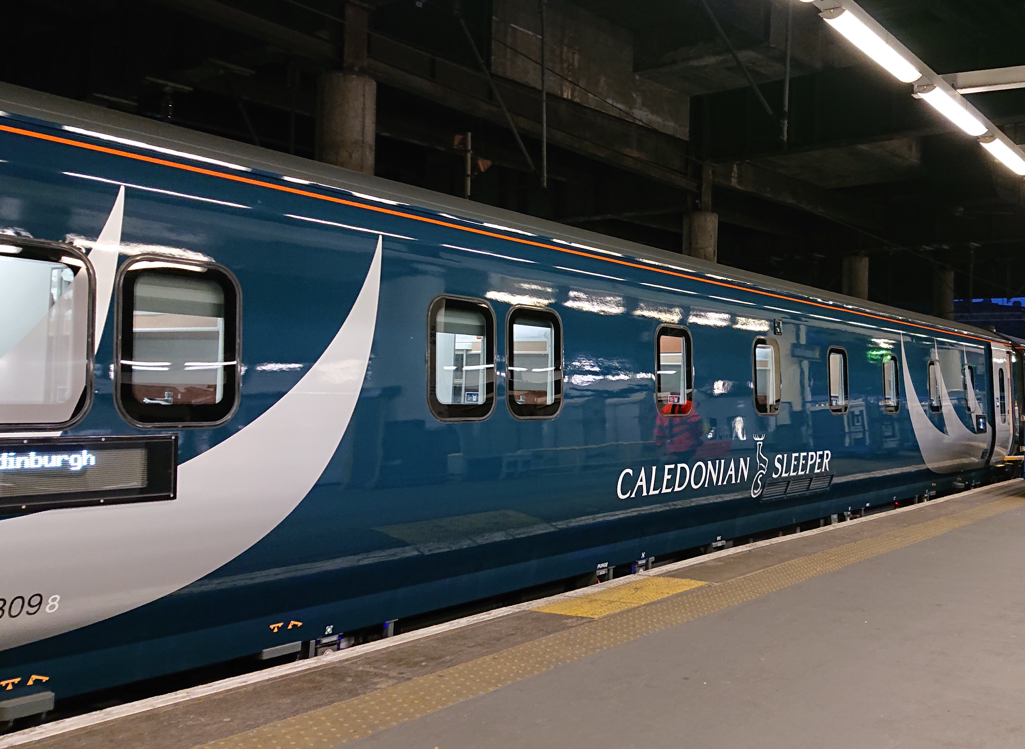 CAF mk5 sleeper coach. Photographed at Euston station on the first day of mk5 operation. Photo taken on the 'cabins' side of the coach.